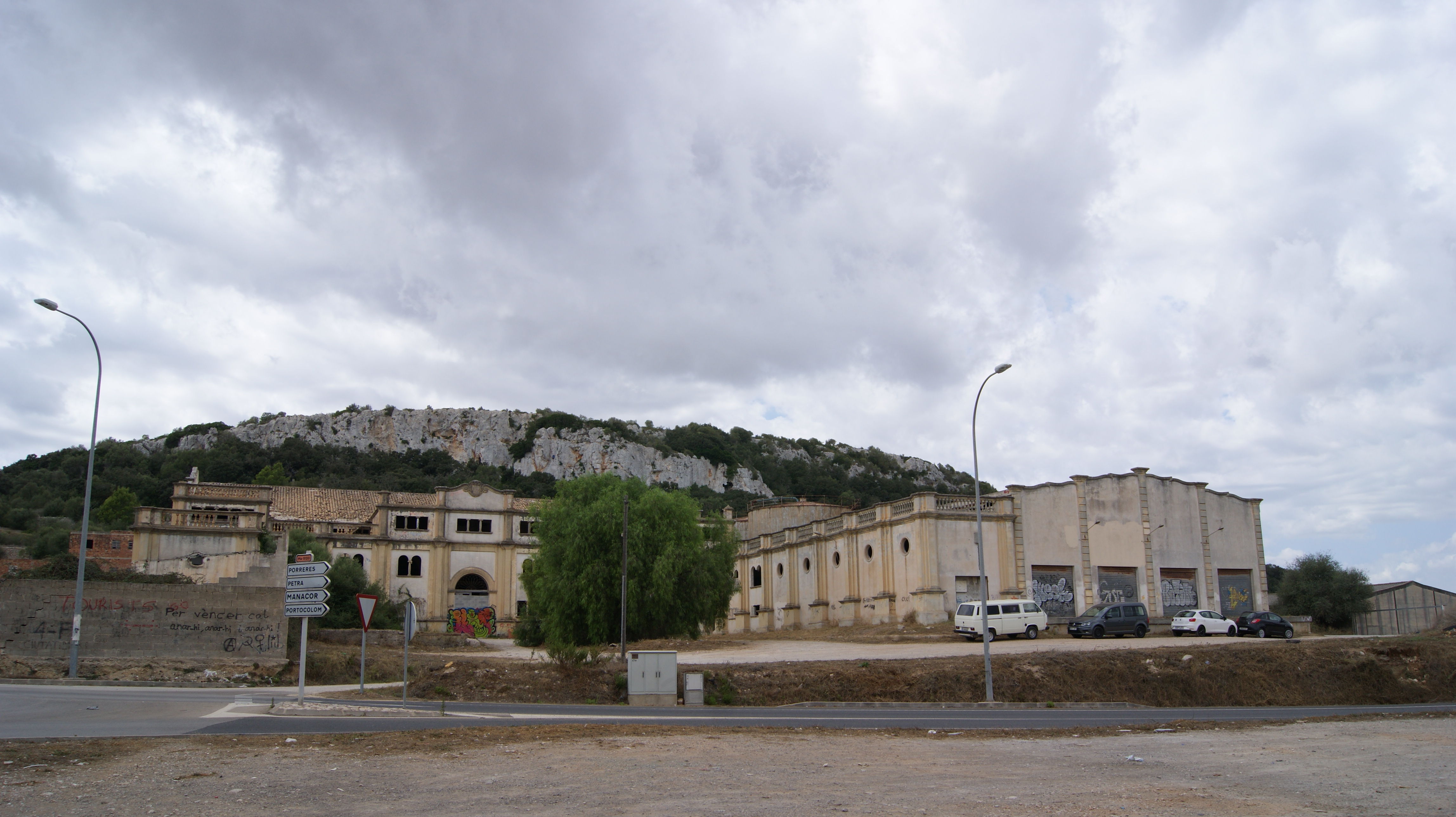 Former Celler cooperation in Fellanitx, Mallorca.